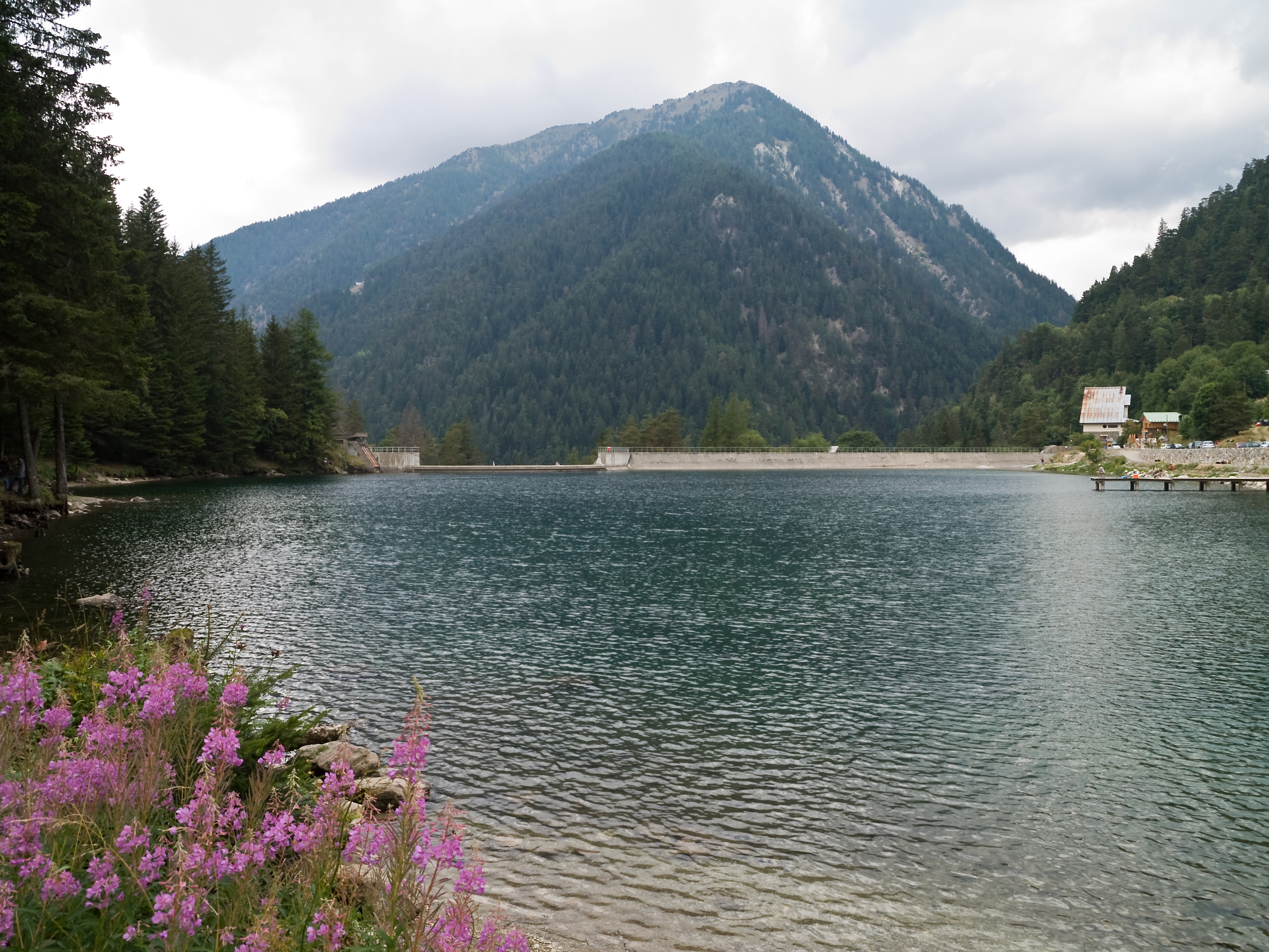 Boréon Lake and its dam, near Saint-Martin-Vésubie in the department of Alpes-Maritimes (France).